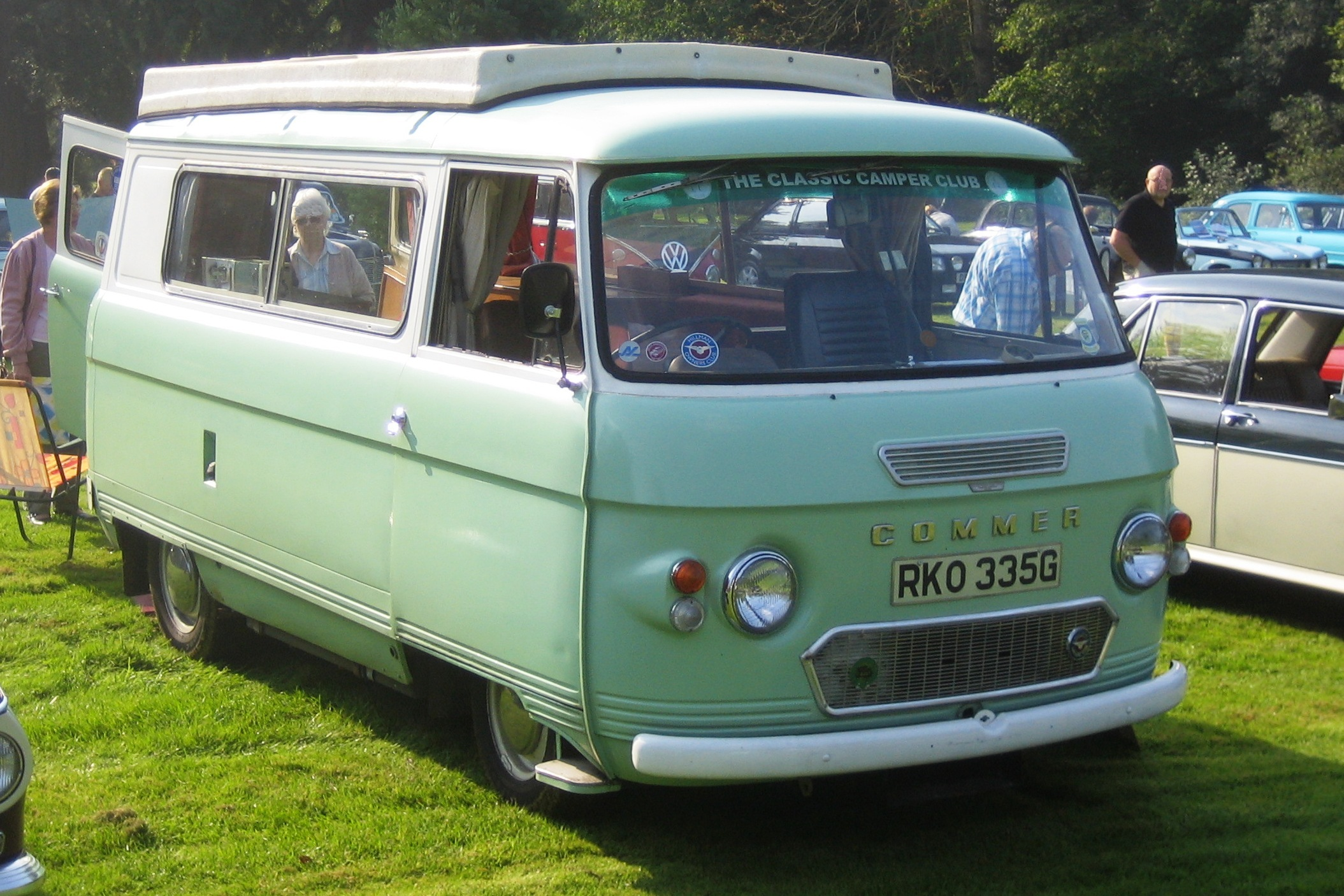 Commer FC based motor caravan